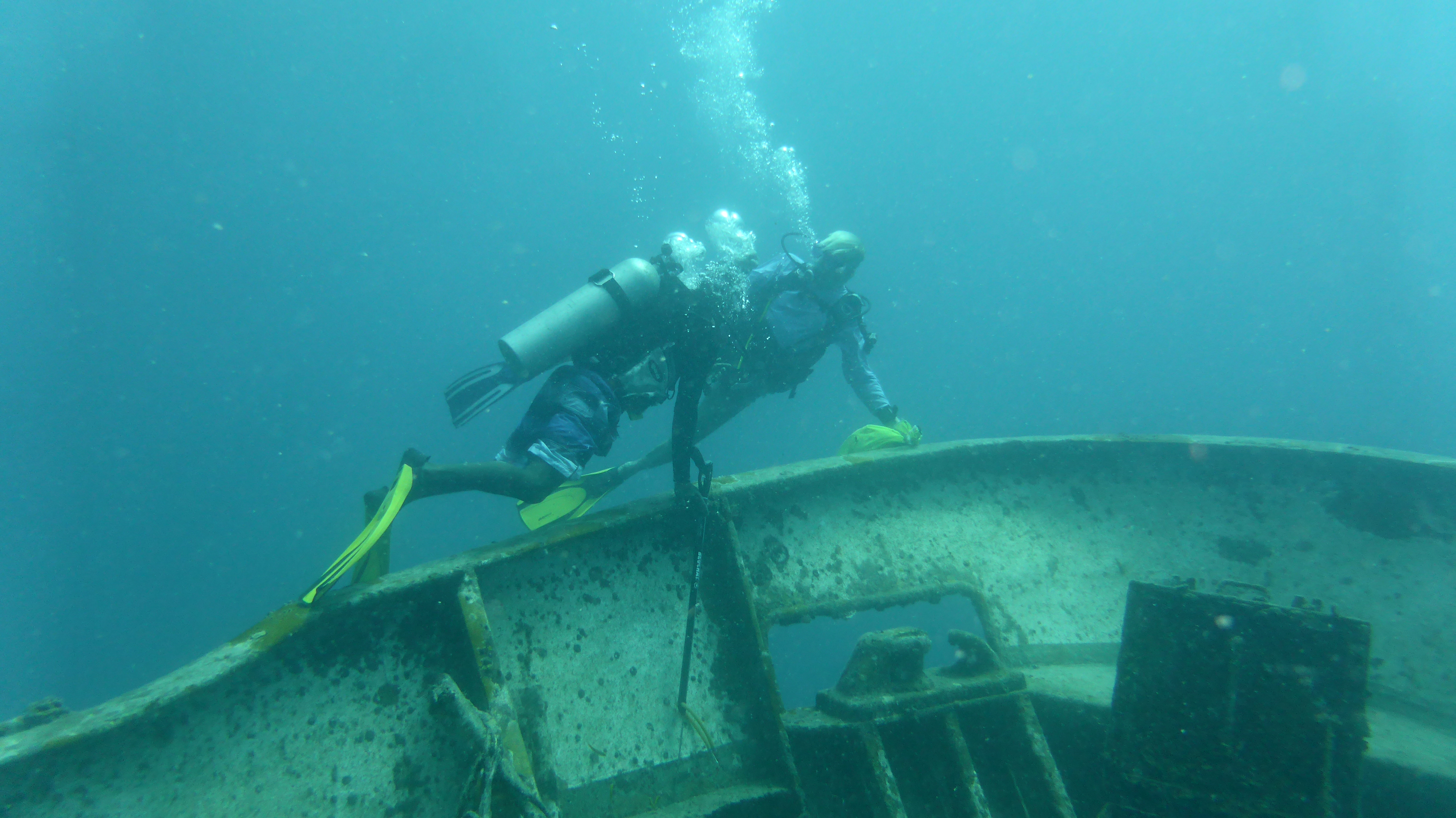 Ram goes over the Bow of Brianna H.